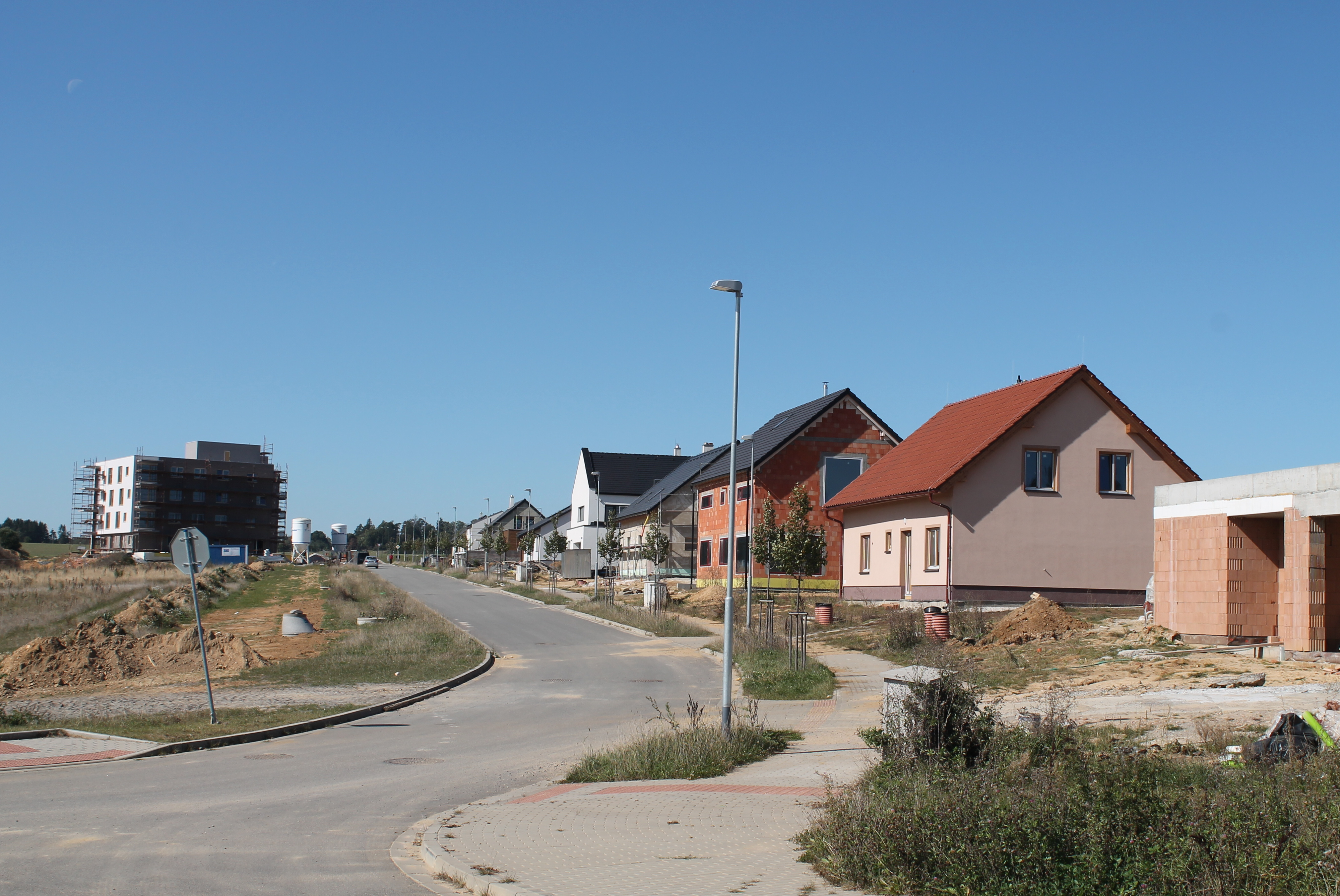 Žďár nad Sázavou 8, Žďár nad Sázavou District, Czech Republic